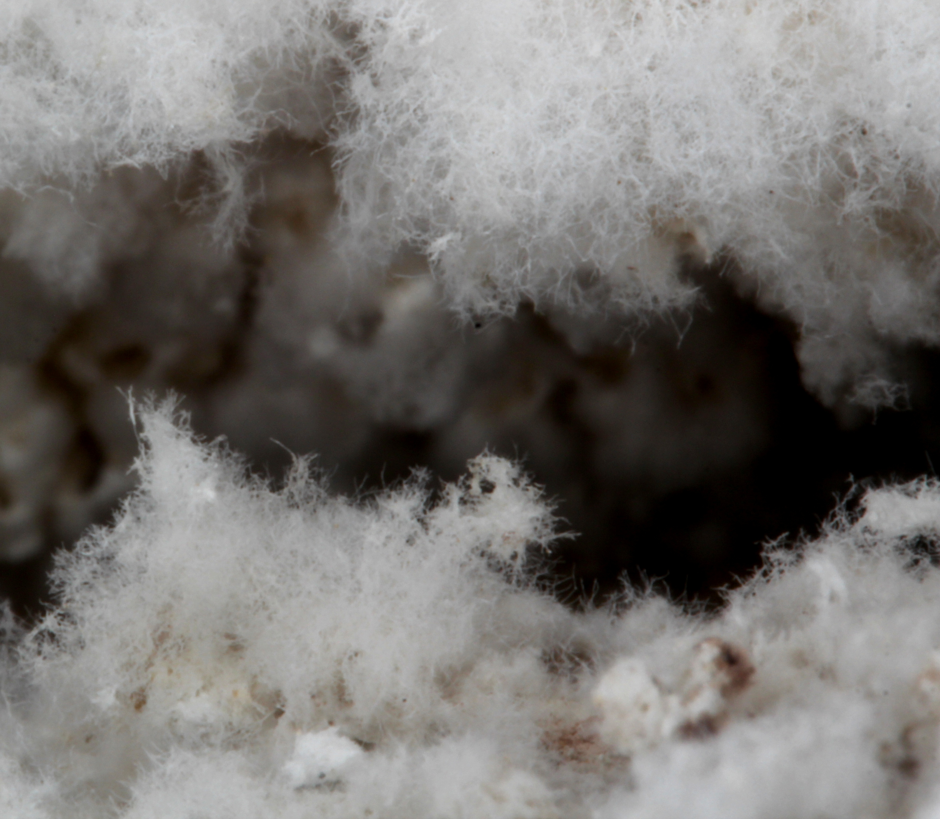 Moonmilk is an Actinomyces bacterial growth in the cave which in some strains may have properties similar to Penicillin. While much of it has dried and been encased in formation, active moonmilk still exists in this cave and others.